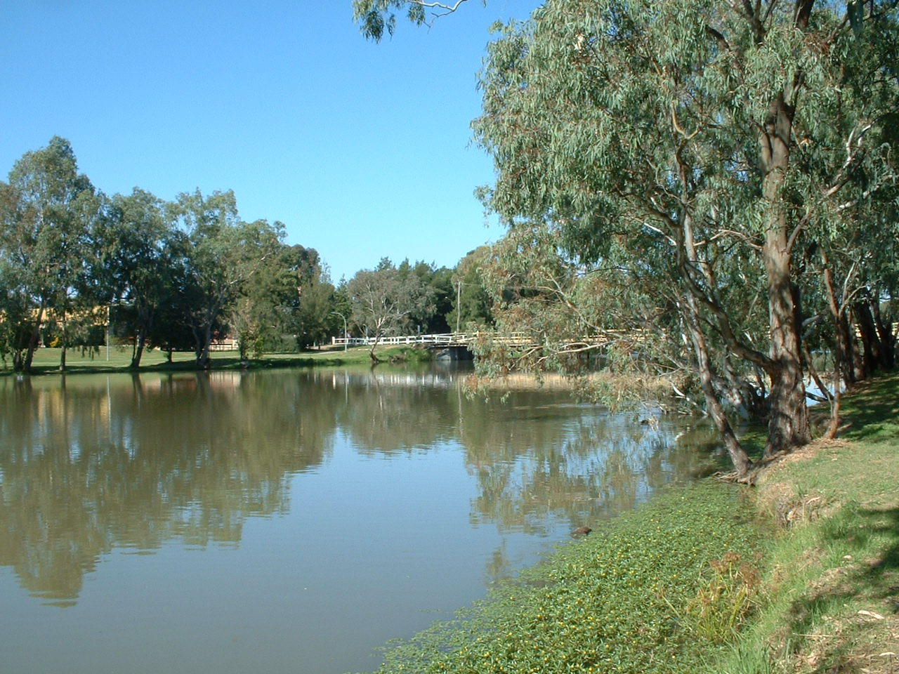 Lake Forbes, a billabong, formed by the Lachlan River, at Forbes, New South Wales.